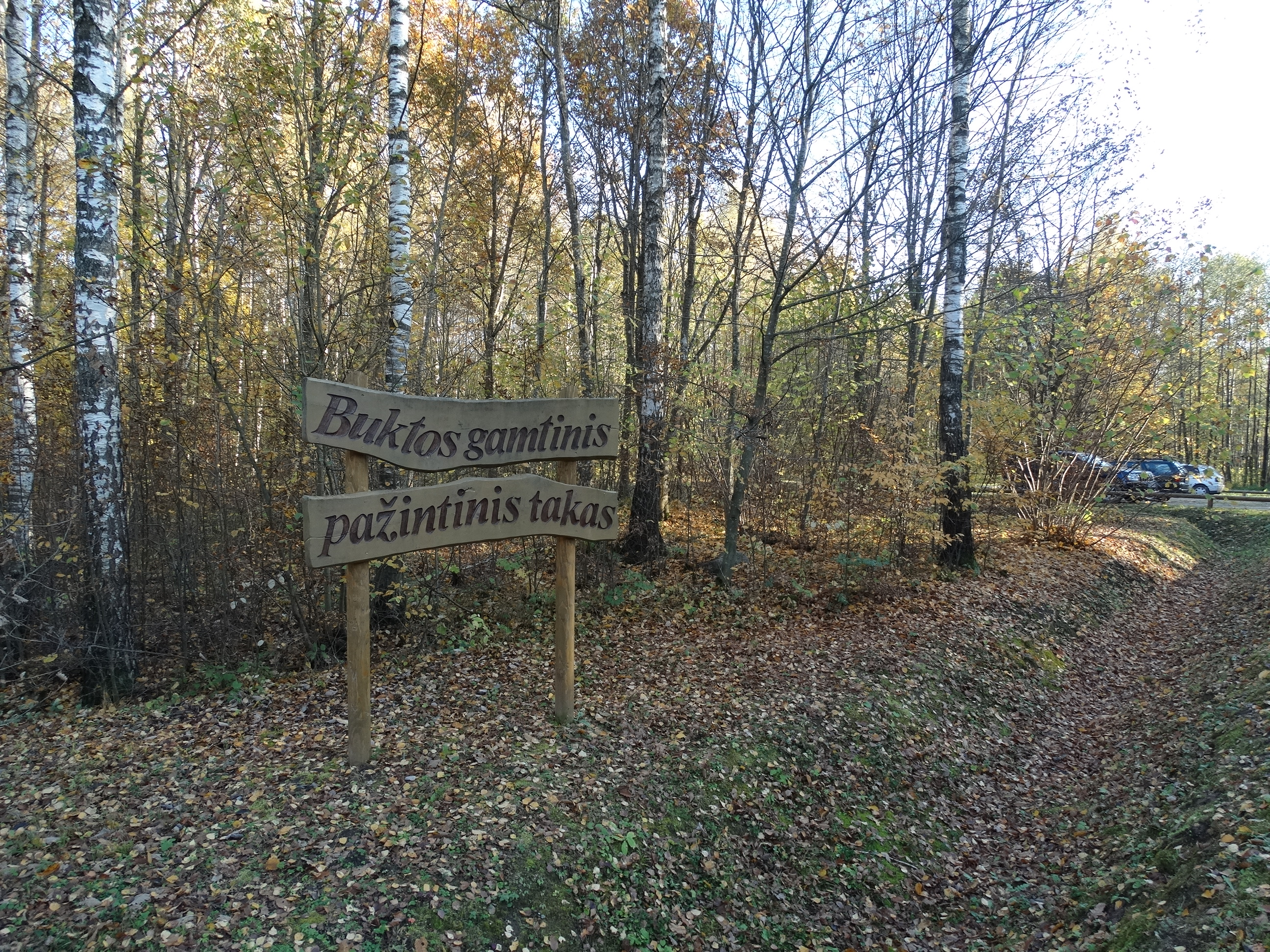 Bukta forest, Marijampolė municipality, Lithuania